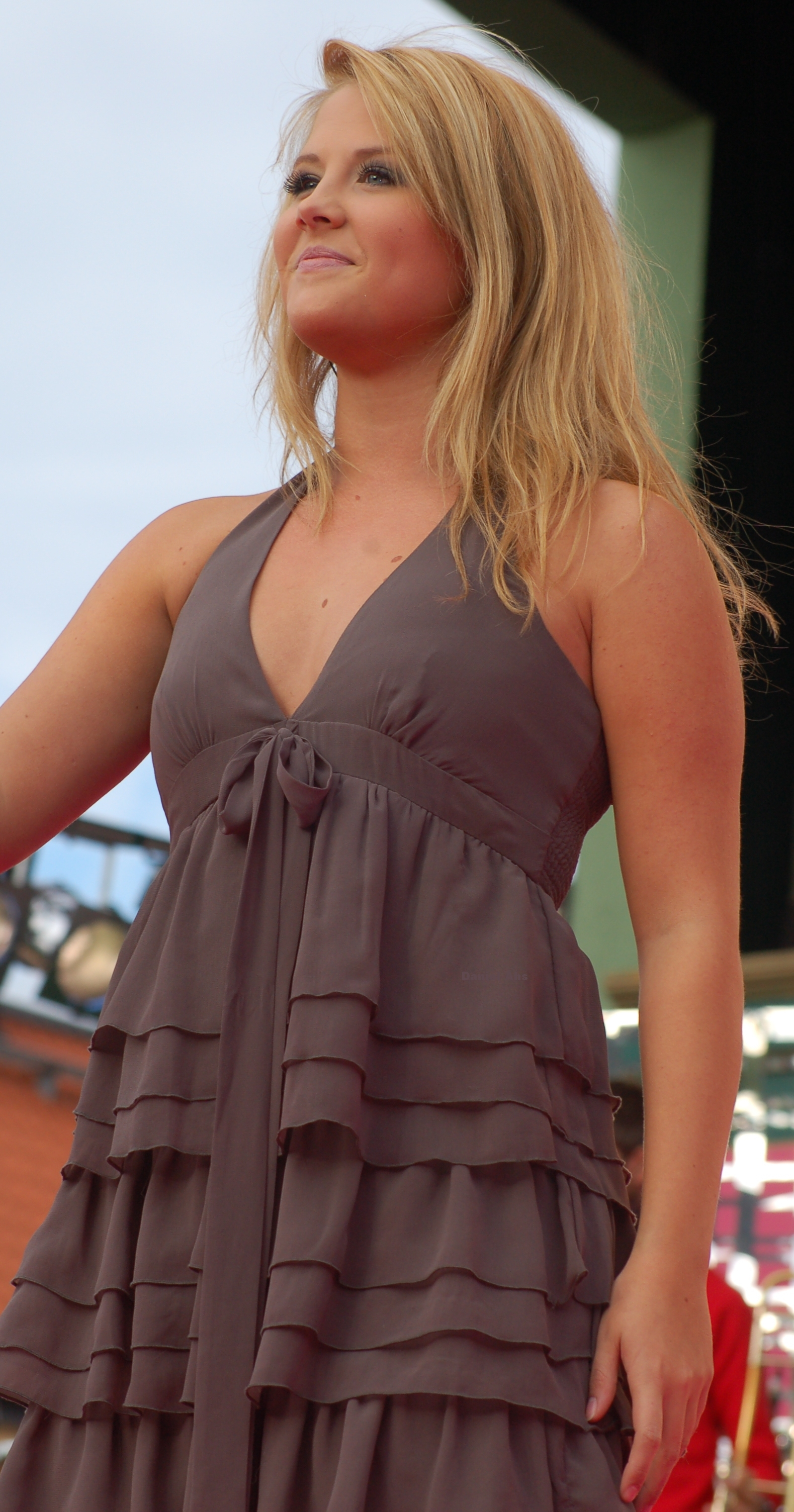 Molly Sandén at Gröna Lund, Sommarkrysset 2008.